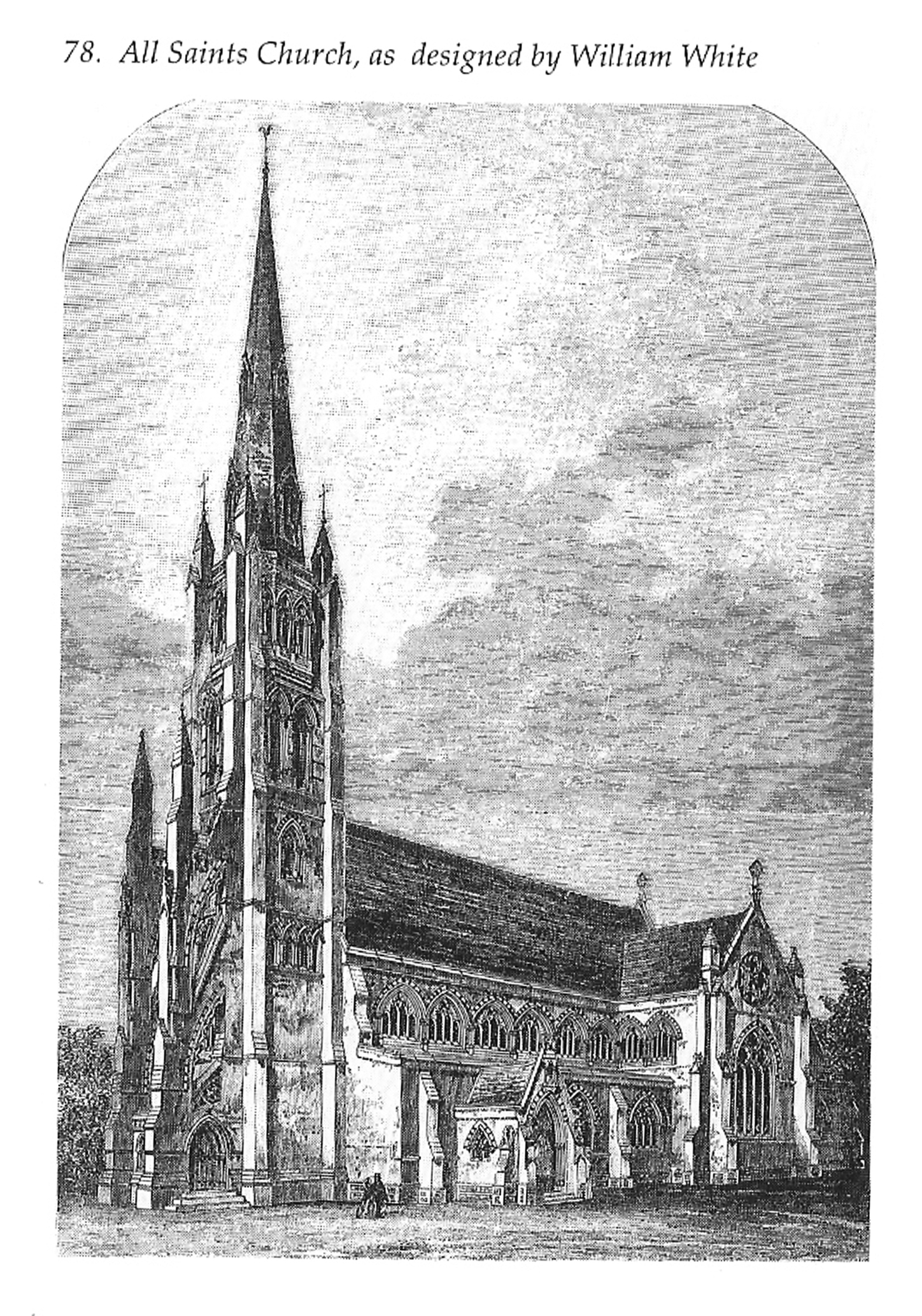 Engraving of how All Saints' parish church, Notting Hill, London, was intended to appear if completed